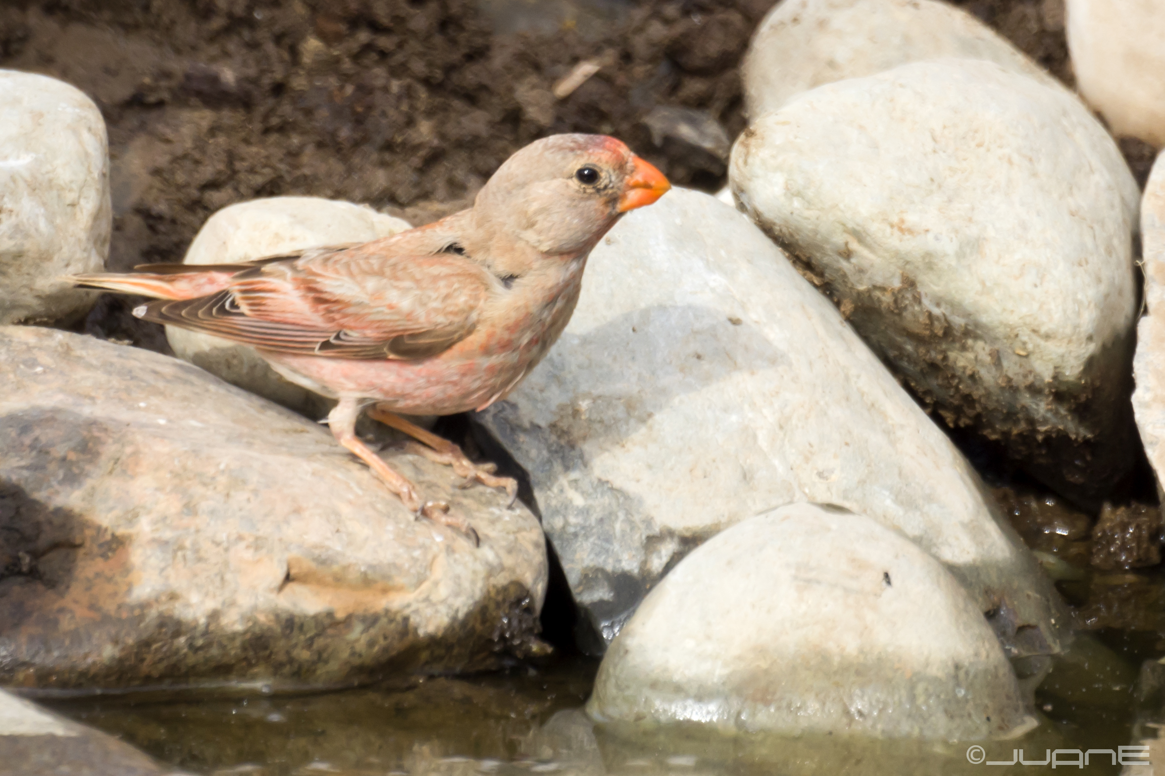 Bucanetes githagineus amantum